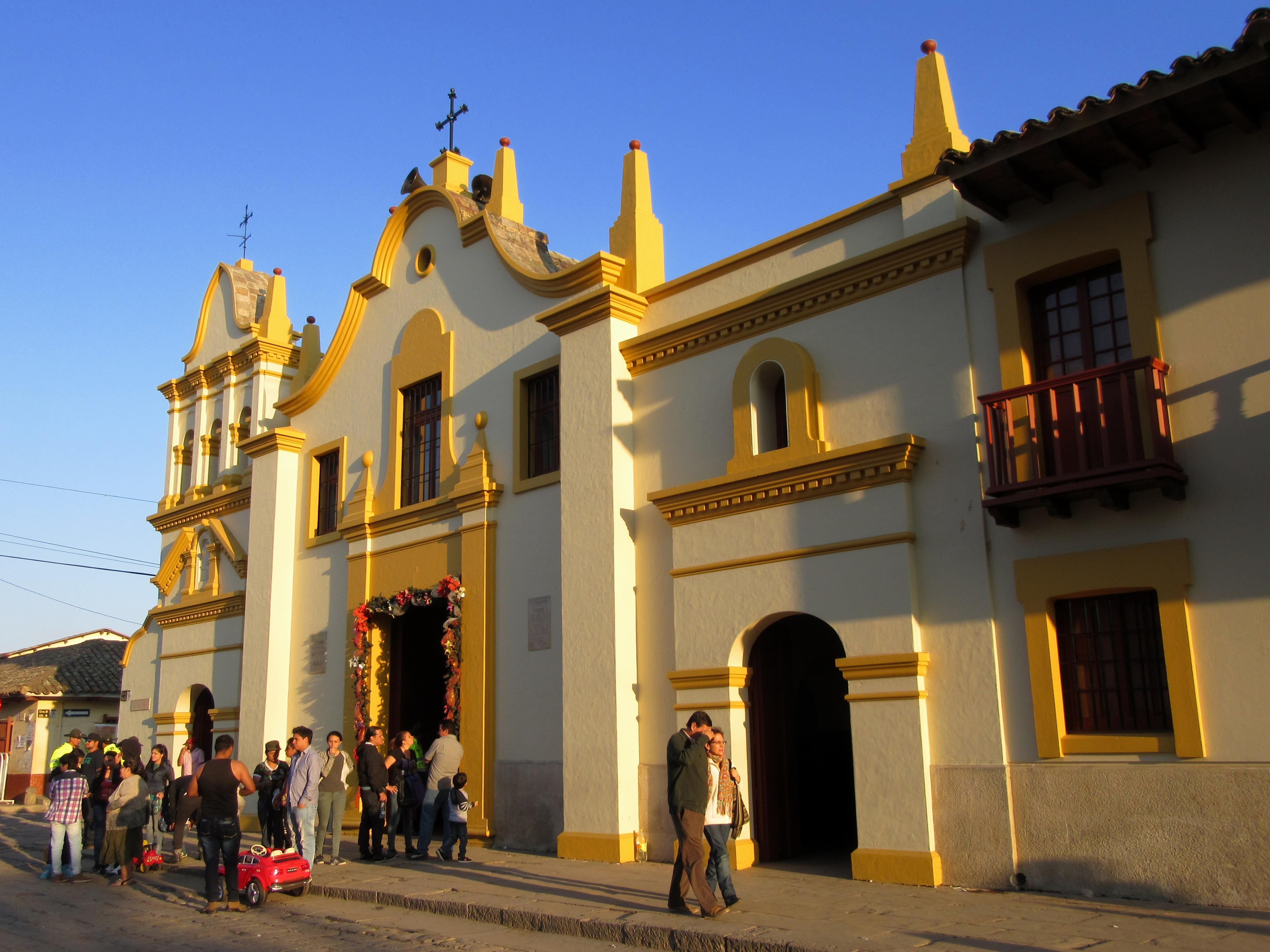 Bojacá